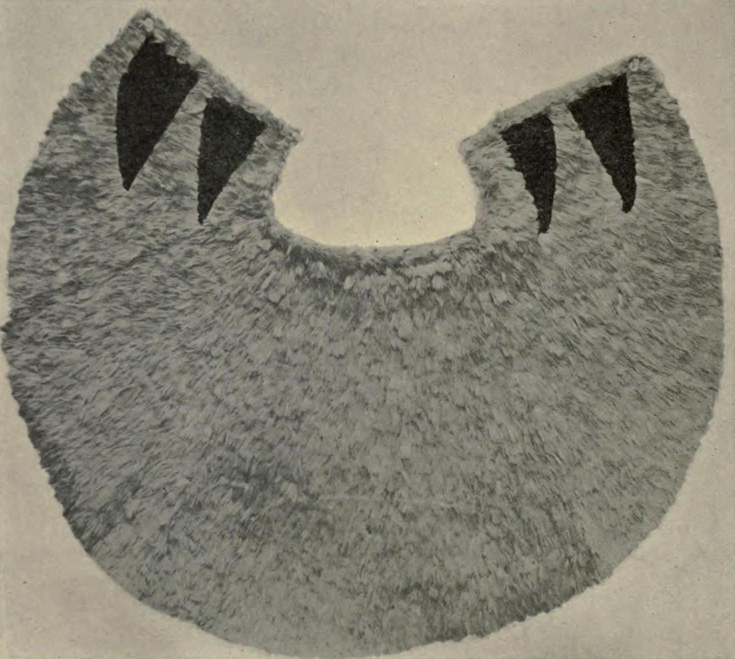 The Kamakahelei Cape, Memoirs Bishop Museum, Vol. VII, Fig. 50. This circular cape is of ʻōʻō (Acrulocercus nobtlis) yellow with two black and two red triangles in front. It measures in width 30 inches; in depth behind 16, and in front 8.5 and 9 inches. Kamakahelei was the mother of Kaumualii by Kaeokulani; another of her husbands was Kaneoneo whose shin-bone later formed the kumu or handle of the interesting kahili (No. 24) in the Bishop Museum. When Cook arrived at Waimea in 1778, and the people were loudly discussing the wonderful event Kamakahelei said: "Let us not fight against our god; let us please Him that He may be favorable to us; then Kamakahelei gave her daughter as a woman to Lono [Cook]; Lelemahoalani was her name; she was older sister of Kaumualii, and Lono slept with that woman, and the Kauai women prostituted themselves to the foreigners for iron. Whether the cape ever belonged to the famous chiefess or was simply named as a memorial of a famous ancestor in the family of the Queen Kapiolani is not recorded.